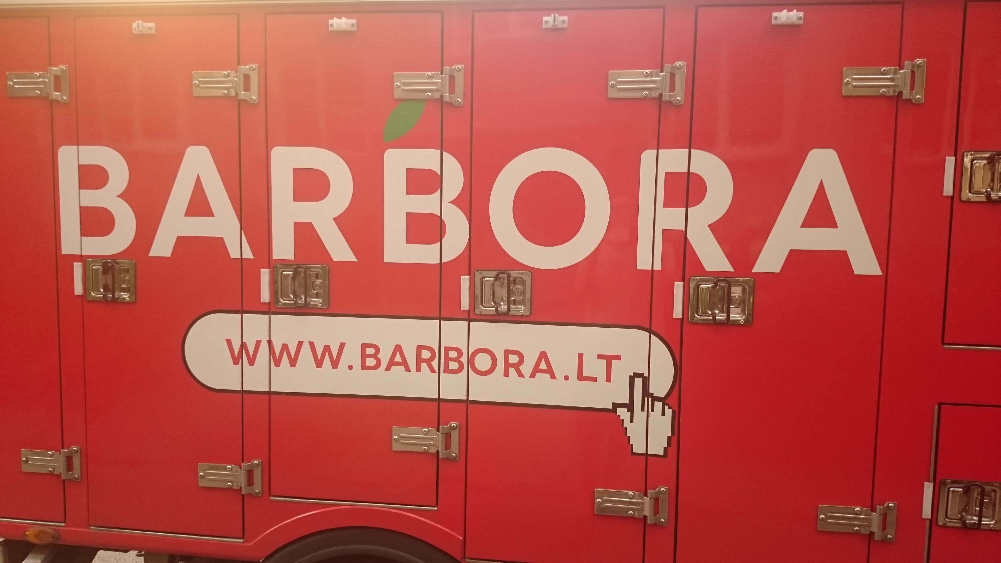 Barbora Maxima LT